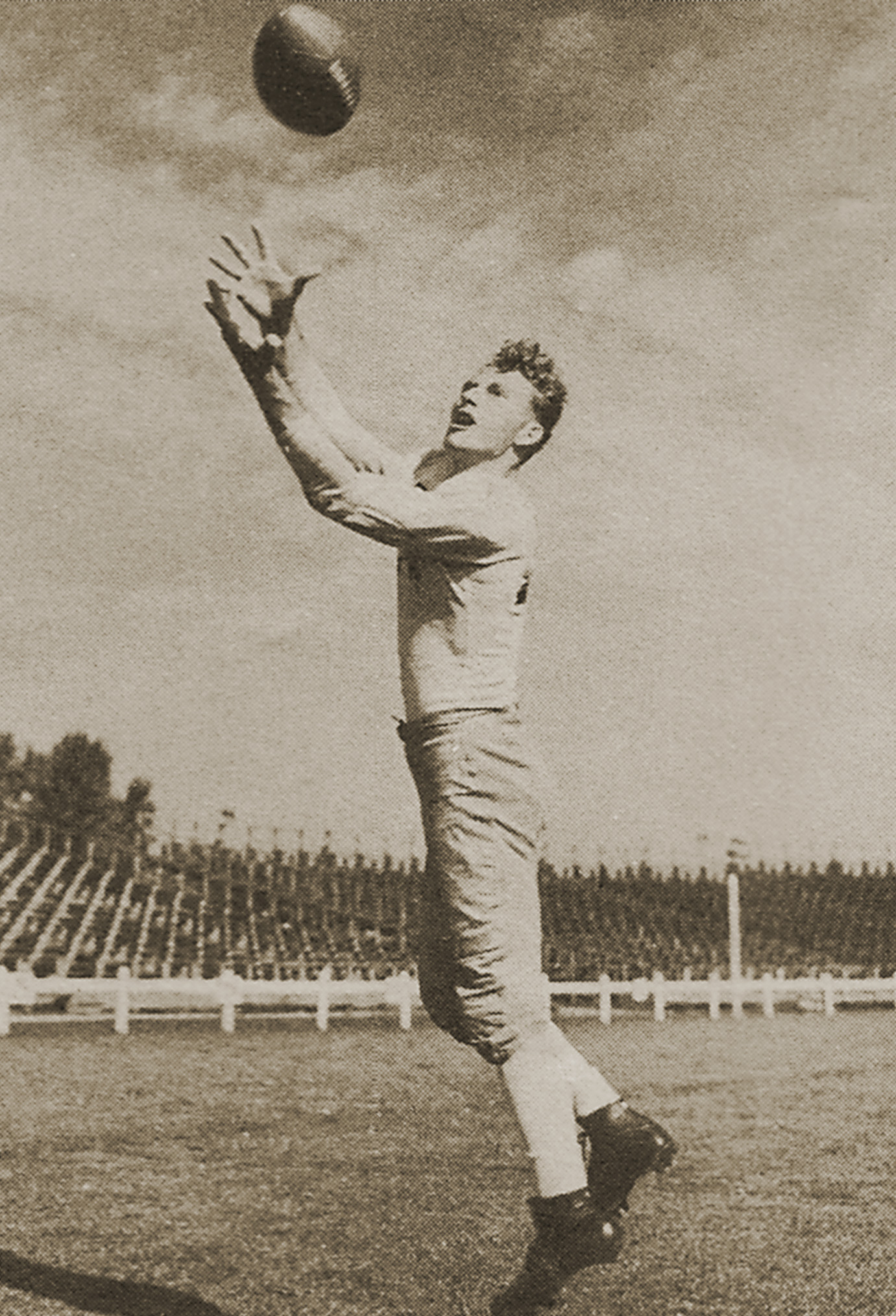 Don Hutson (1913-1997), American Football Player. Image first published in Howard Roberts, "Who's Who in the Major Leagues Football." Chicago: B.E. Callahan, [1940]; pg. 3. Published in the USA between 1923 and 1978 with no copyright notice in original publication, public domain. No photographer credited. Digitized and digital editing by Tim Davenport ("Carrite") for Wikipedia, no copyright claimed, released to the public domain without restriction.